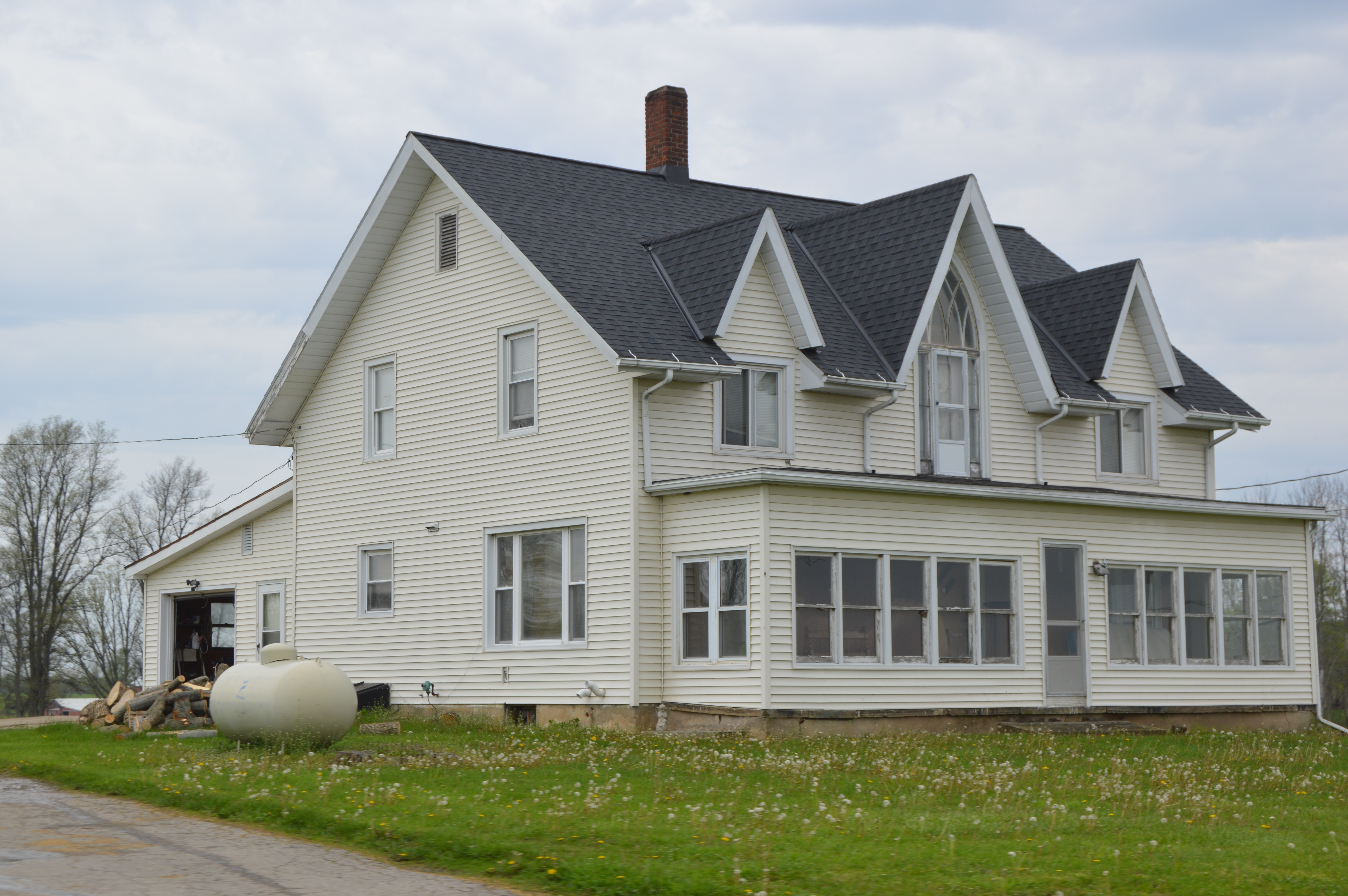 Front and southern side of the Carpenter Gothic house located at 2353 New State Road south of North Fairfield in southern Fairfield Township, Huron County, Ohio, United States.